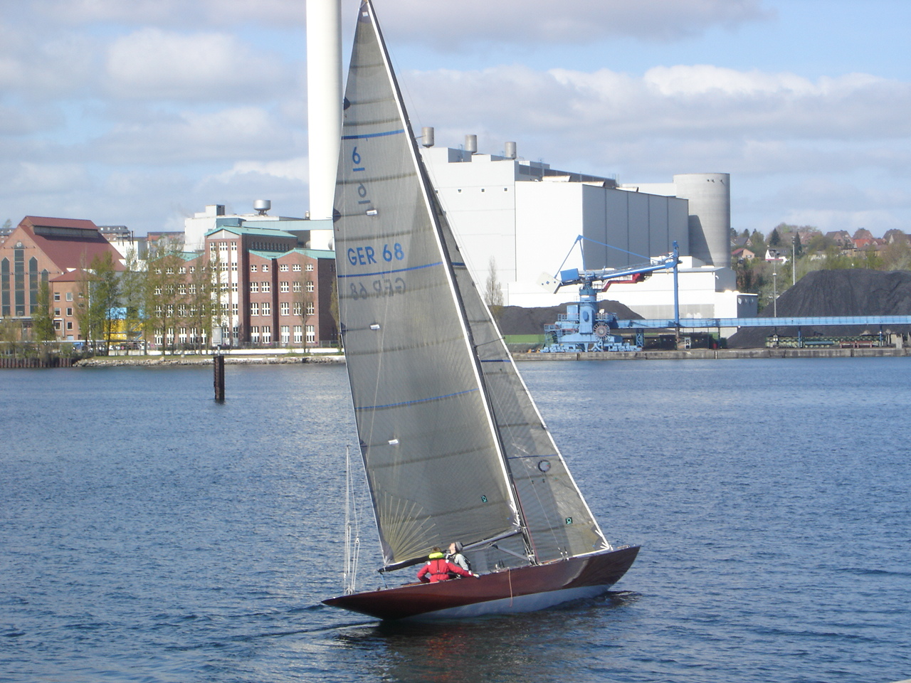 Flensburg harbour (Germany), 6-metre class yacht Lillevi, built 1938, designer: Zaké Westin (1886-1938), builder: Abo Batvarv